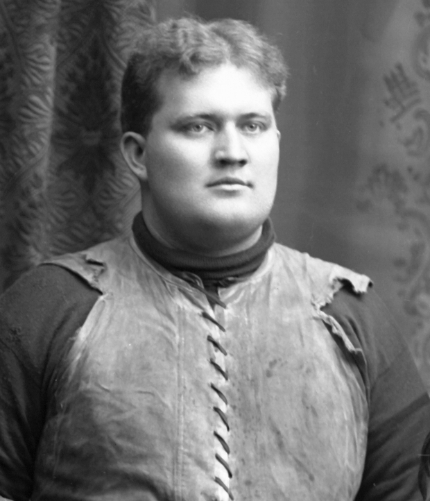 Photograph of Henry R. Brown